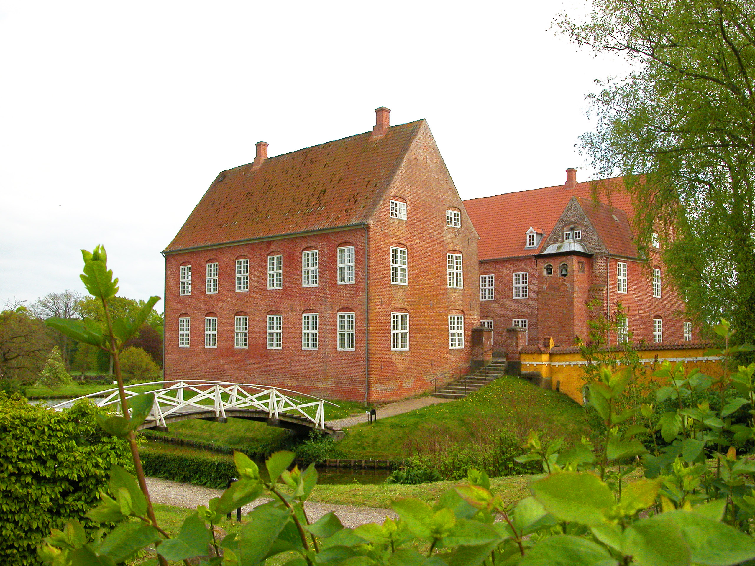 Stovring Monastary